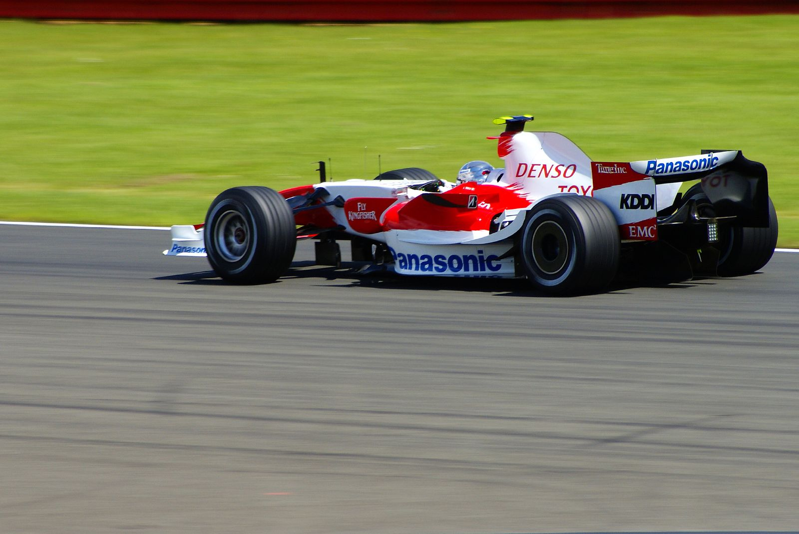 Jarno Trulli driving for Toyota at the 2007 British Grand Prix.